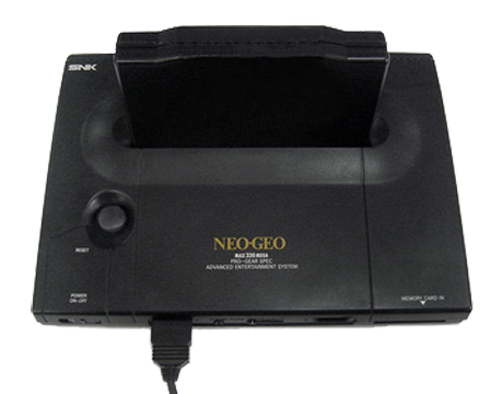 Knockout of SNKs Neo Geo console for illustration purpose. Based on CC-BY-2.0 Generic image at flickr. Original here